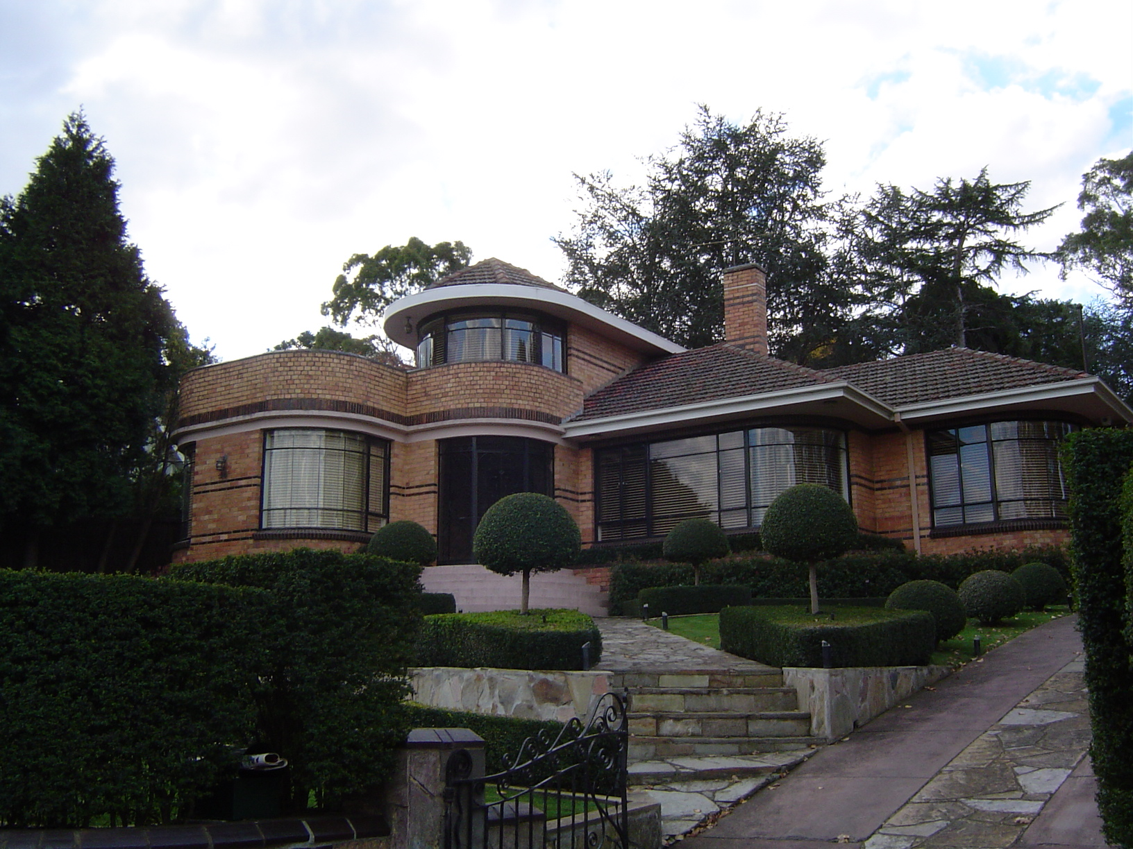 Waterfall (Art Deco) style house in Eaglemont, Victoria.